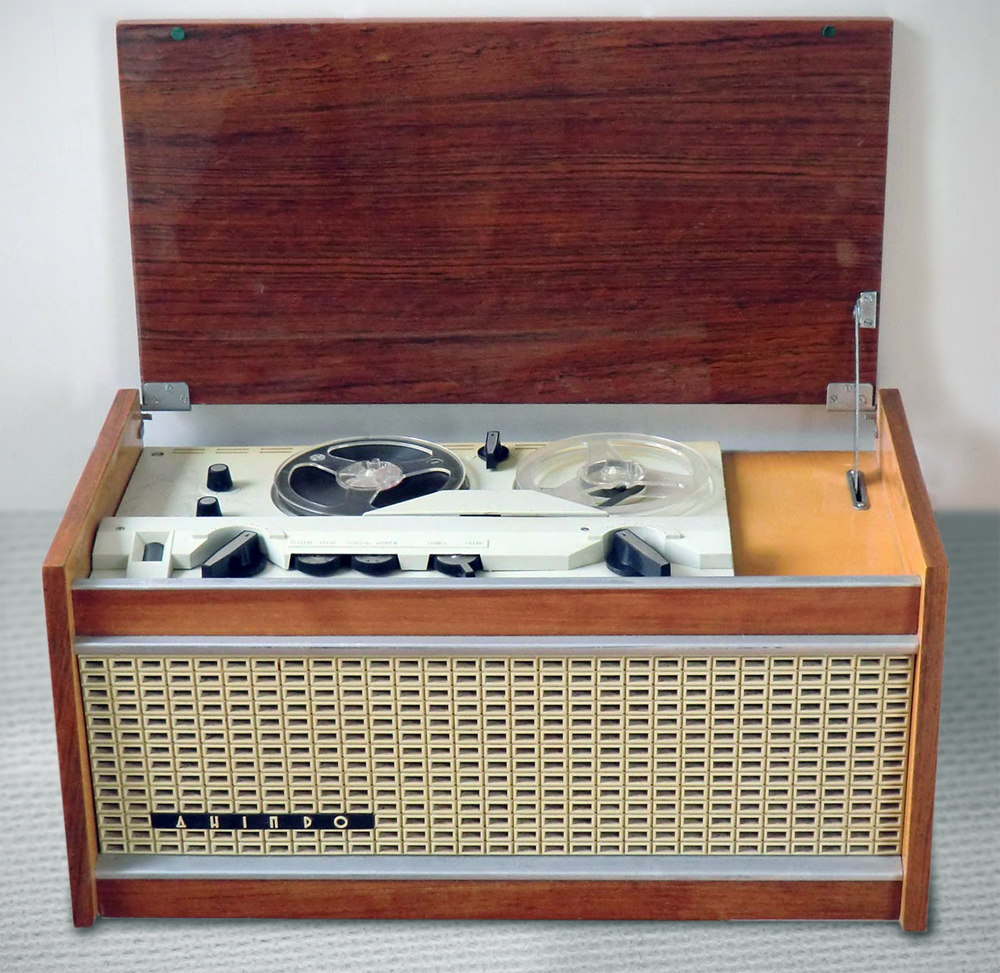 USSR (Ukraine) “Dhepr-14A” tape recorder 1967